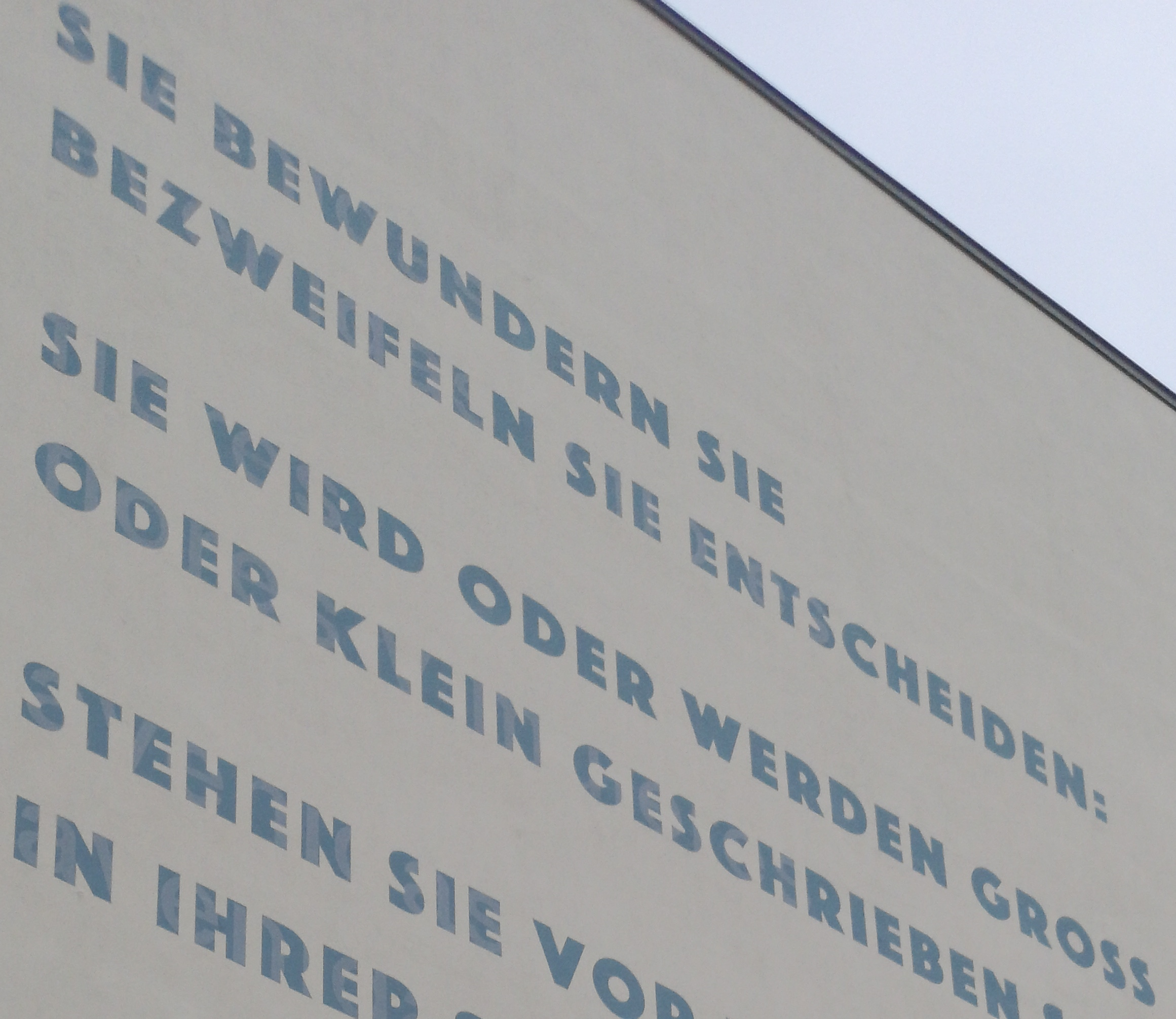 Alice Salomon University in Berlin in january 2019